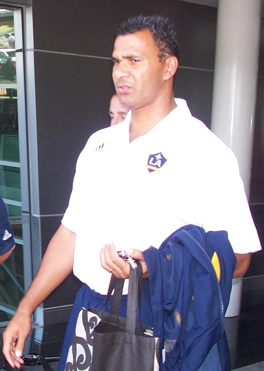 Cobi Jones (left) and Ruud Gullit leaving Wellington International Airport following the arrival of the LA Galaxy team to face the Wellington Phoenix